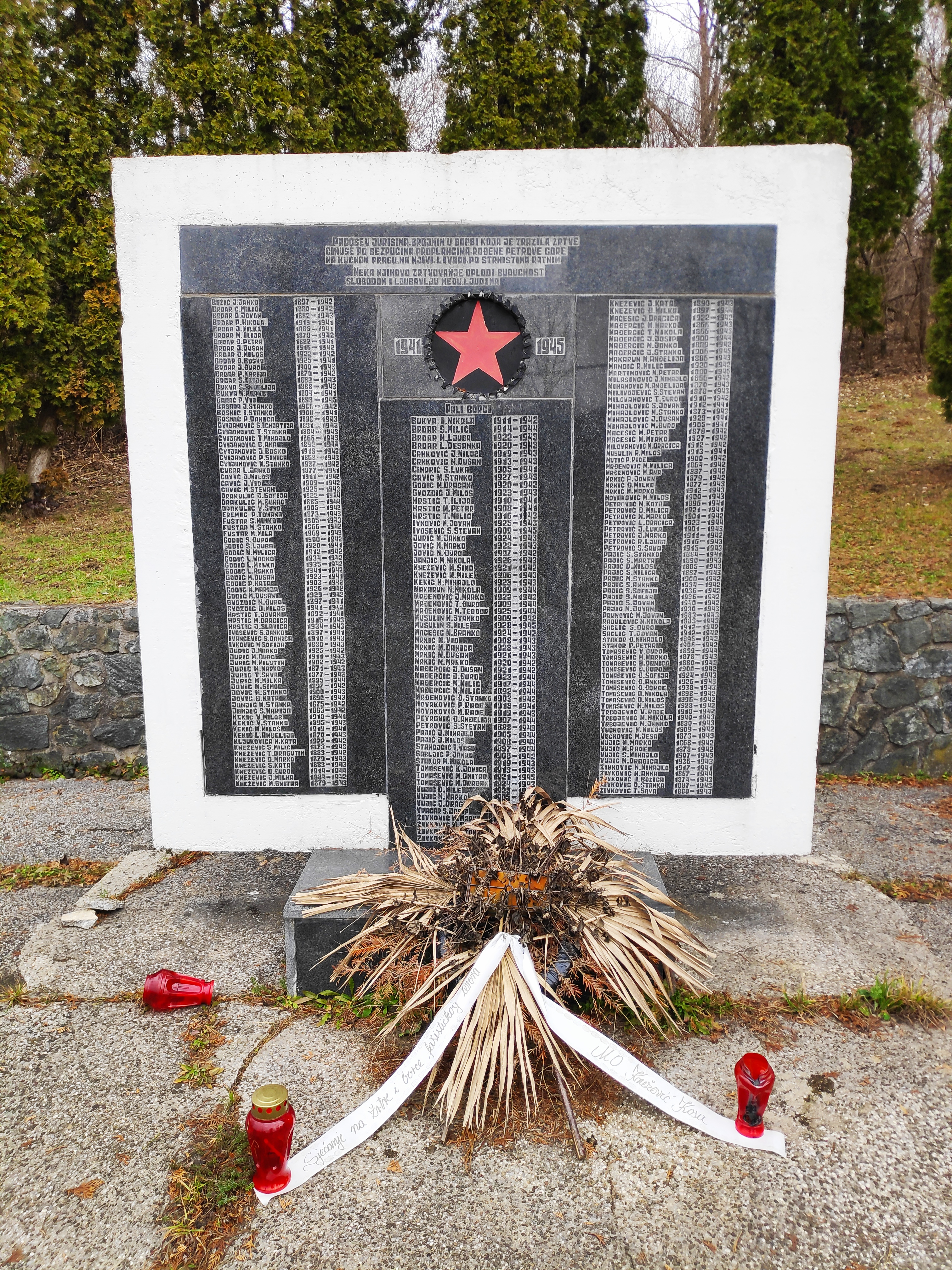 Monument to fallen Partisans and victims to Ustasas terror from 2 WW, Knežević Kosa, Kordun, Croatia